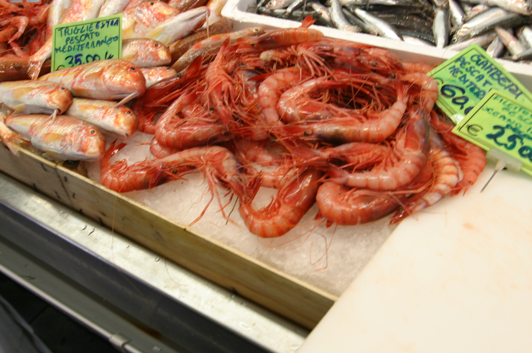 Ventimiglia food market, Italy